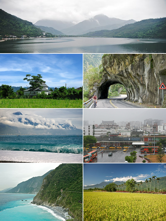 Montage of various Hualien County images.